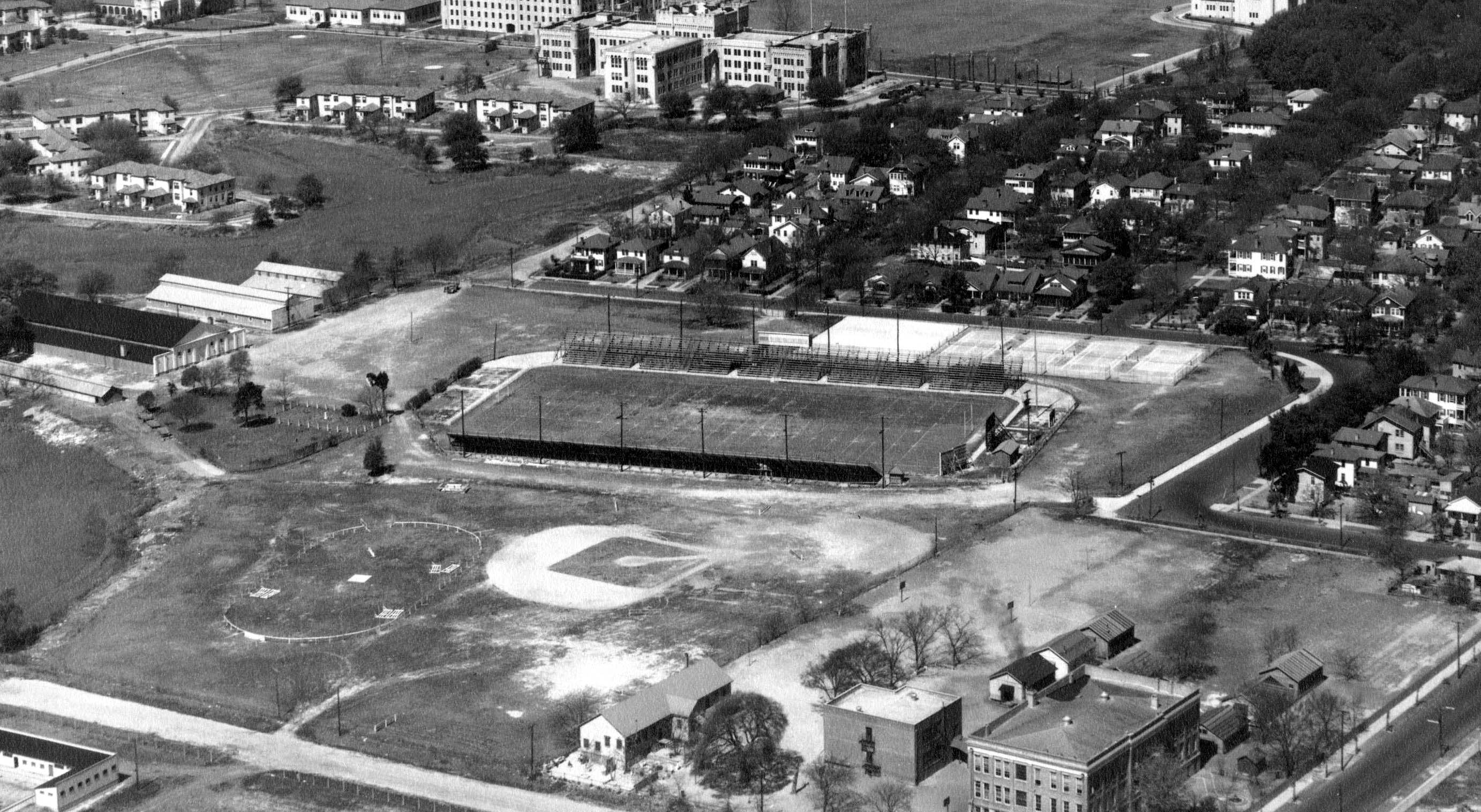 Aerial photograph of the original Hagood football stadium